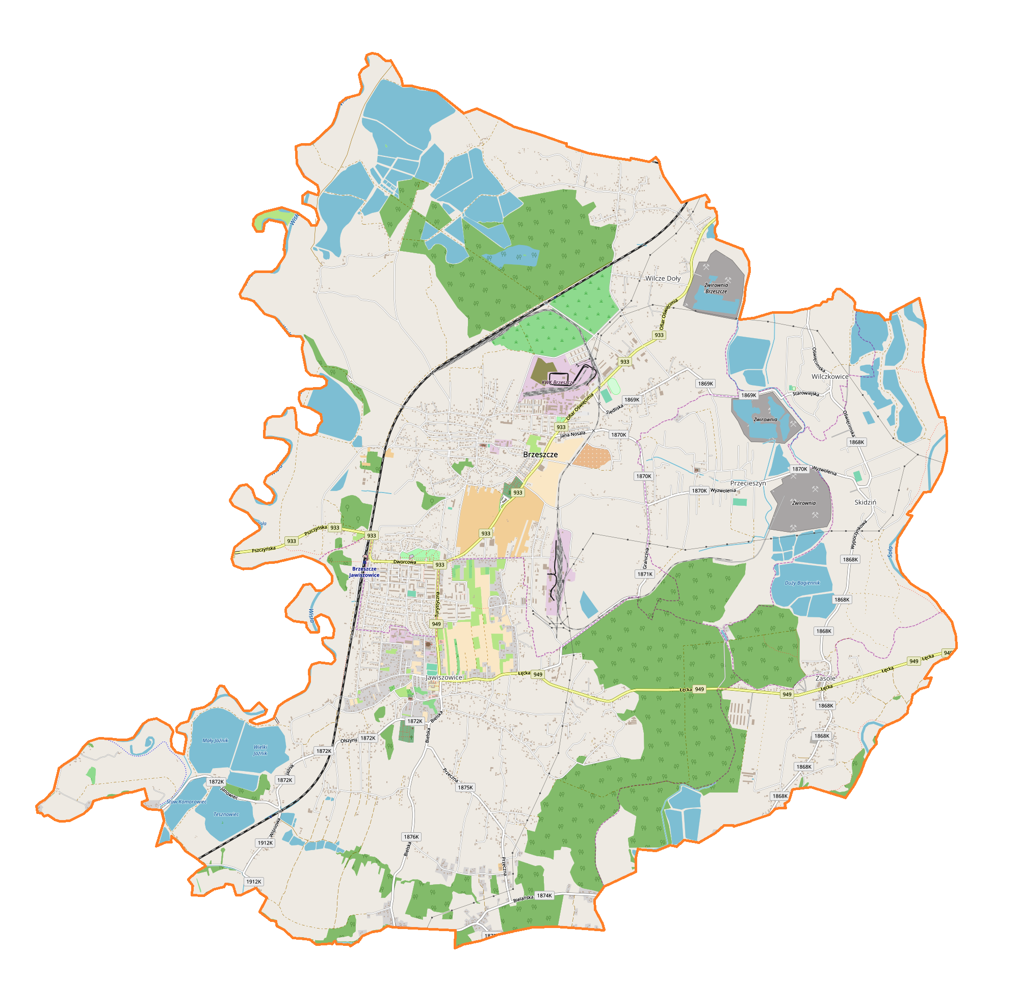 Location map